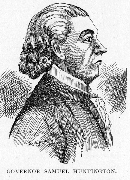 Artist's depiction of Samuel H. Huntington.